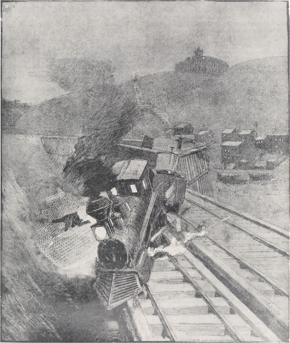 Fatal wreck on the Cincinnati, Lebanon and Northern Railway's trestle in the Deer Creek Valley, February 6, 1885.